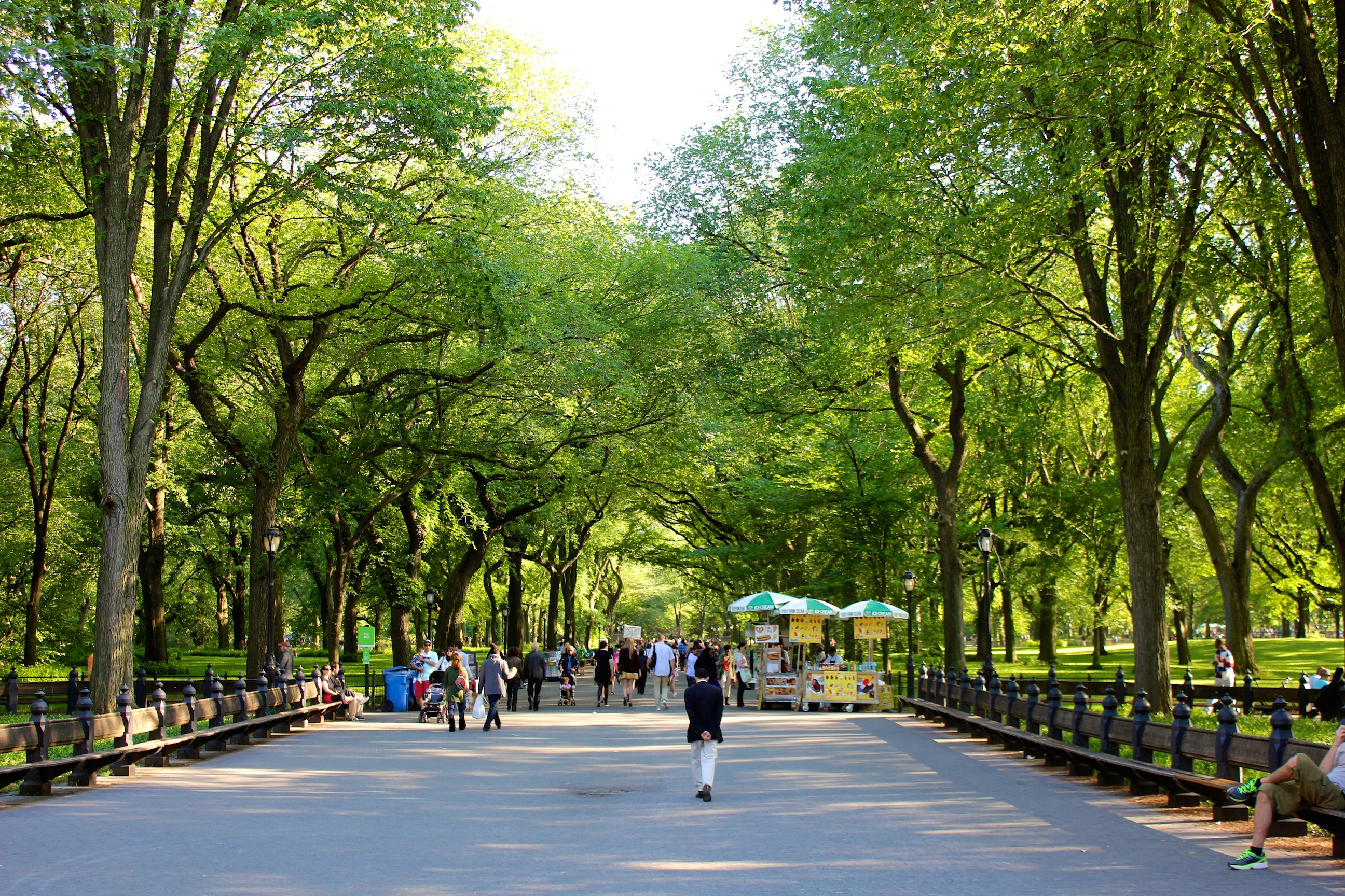 Central Park in June